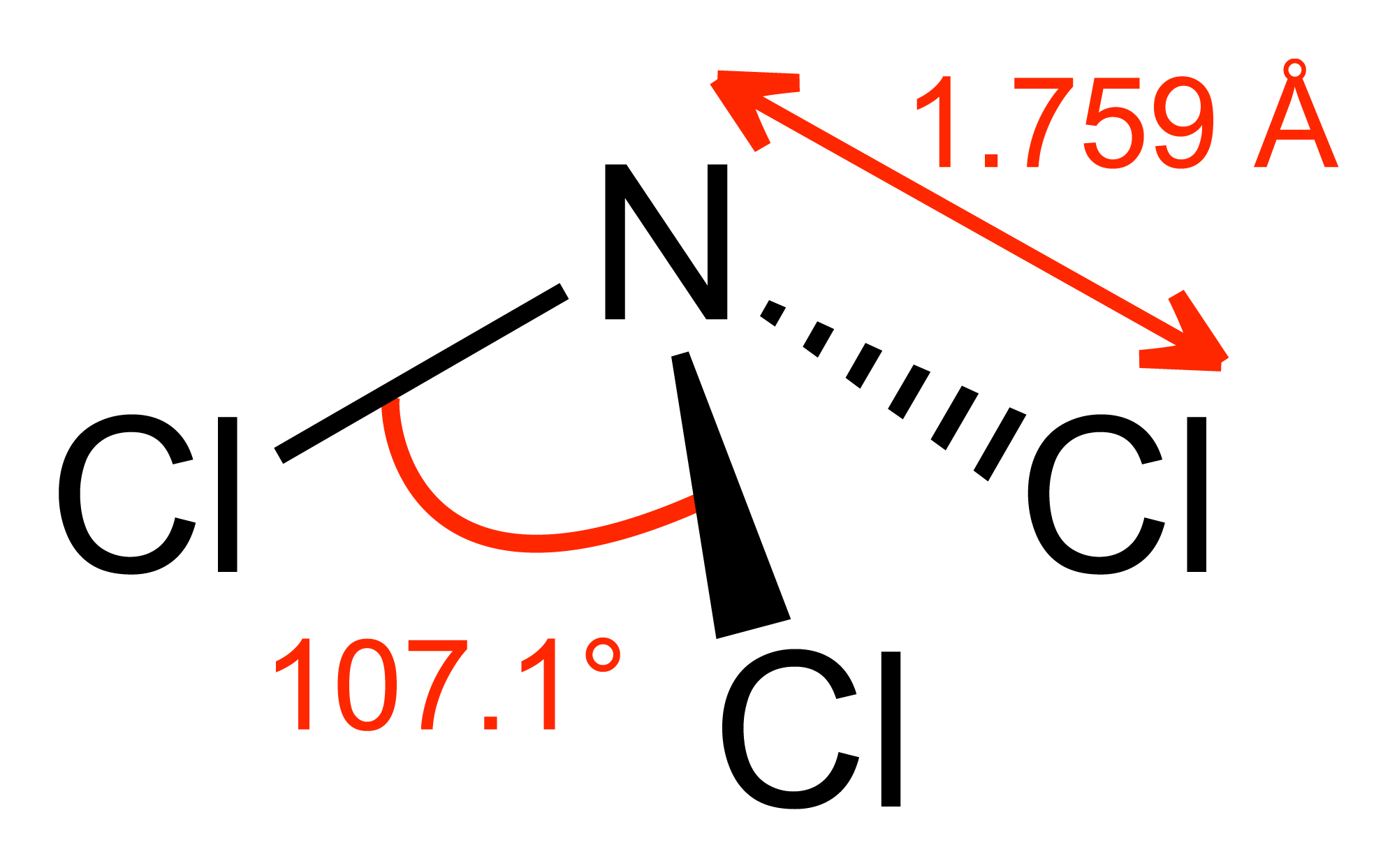 Structural formula of the nitrogen trichloride molecule, NCl3, with a nitrogen-chlorine bond of length 1.759 Å and a Cl-N-Cl angle of 107.1 °. Structural information (determined by gas-phase electron diffraction) from CRC Handbook, 91st edition, page 9–25.